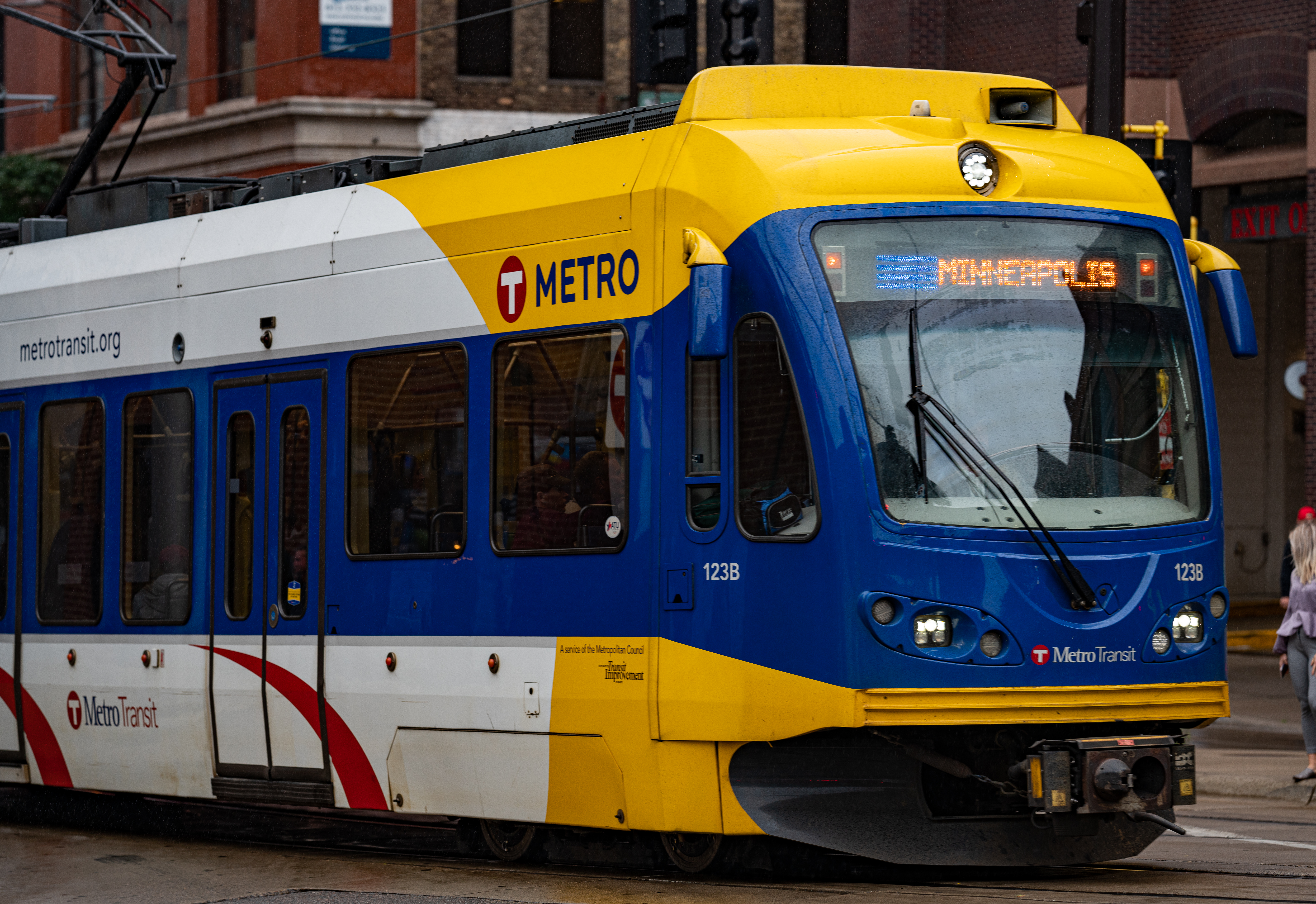 A Metro Transit METRO Blue Line light rail train in downtown Minneapolis, Minnesota, on October 10, 2019.